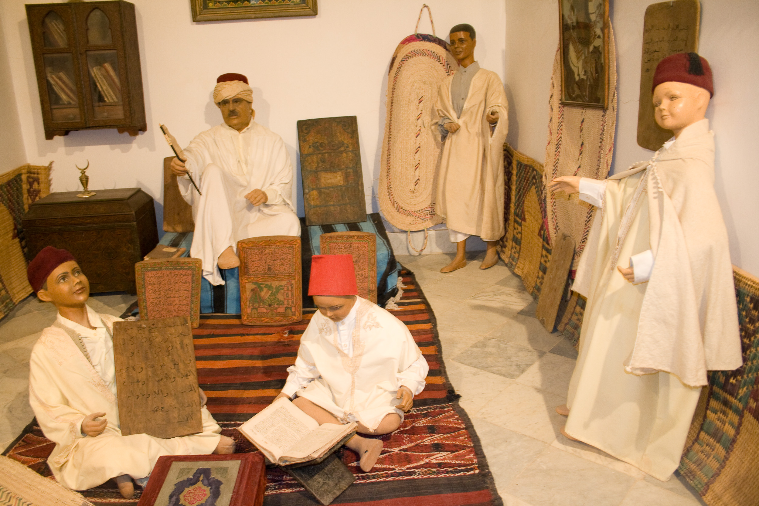 Coranic school shown at the Dar Cherait Museum in Tozeur (Tunisia)